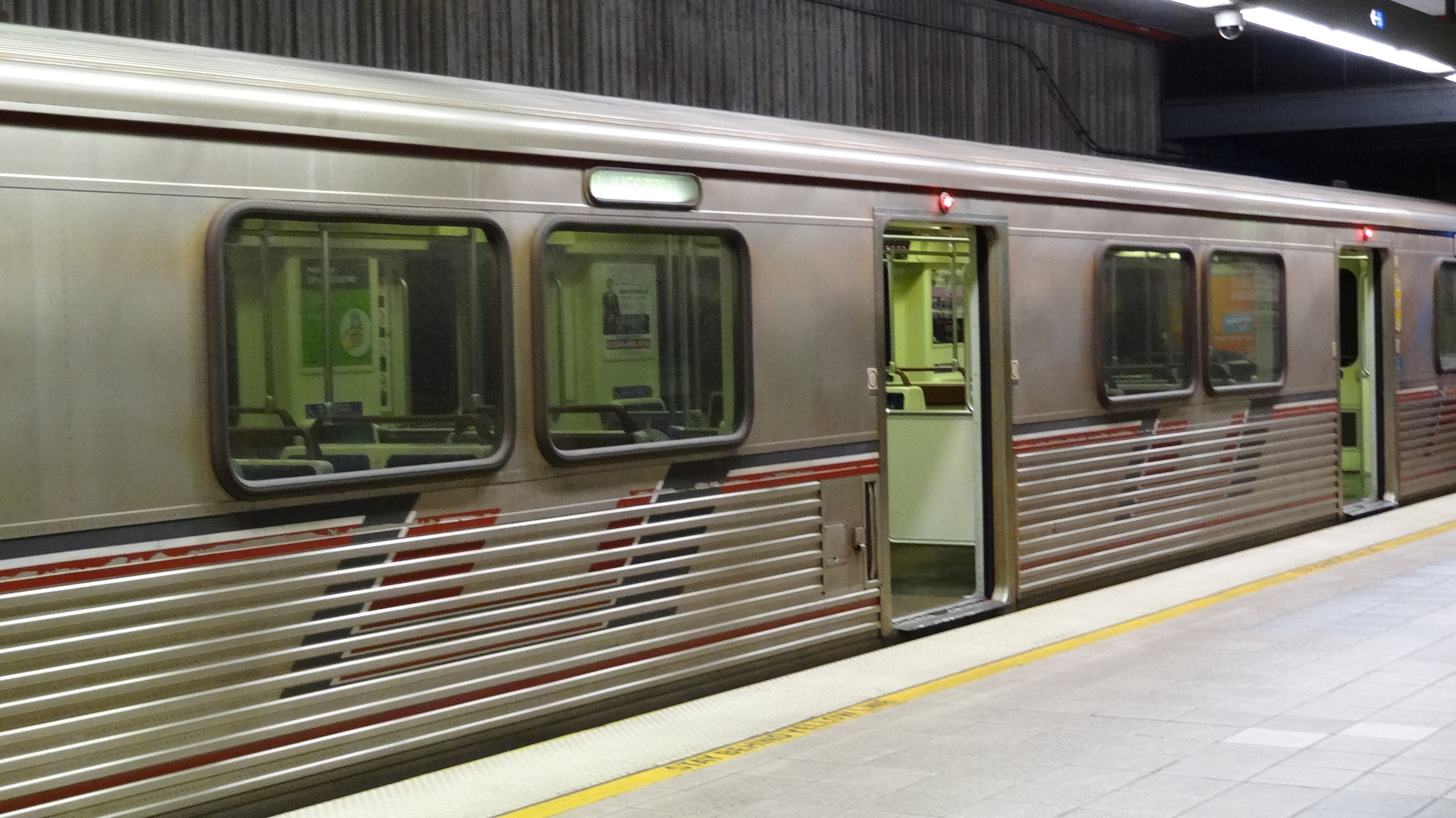 Metro Purple Line at Union Station.